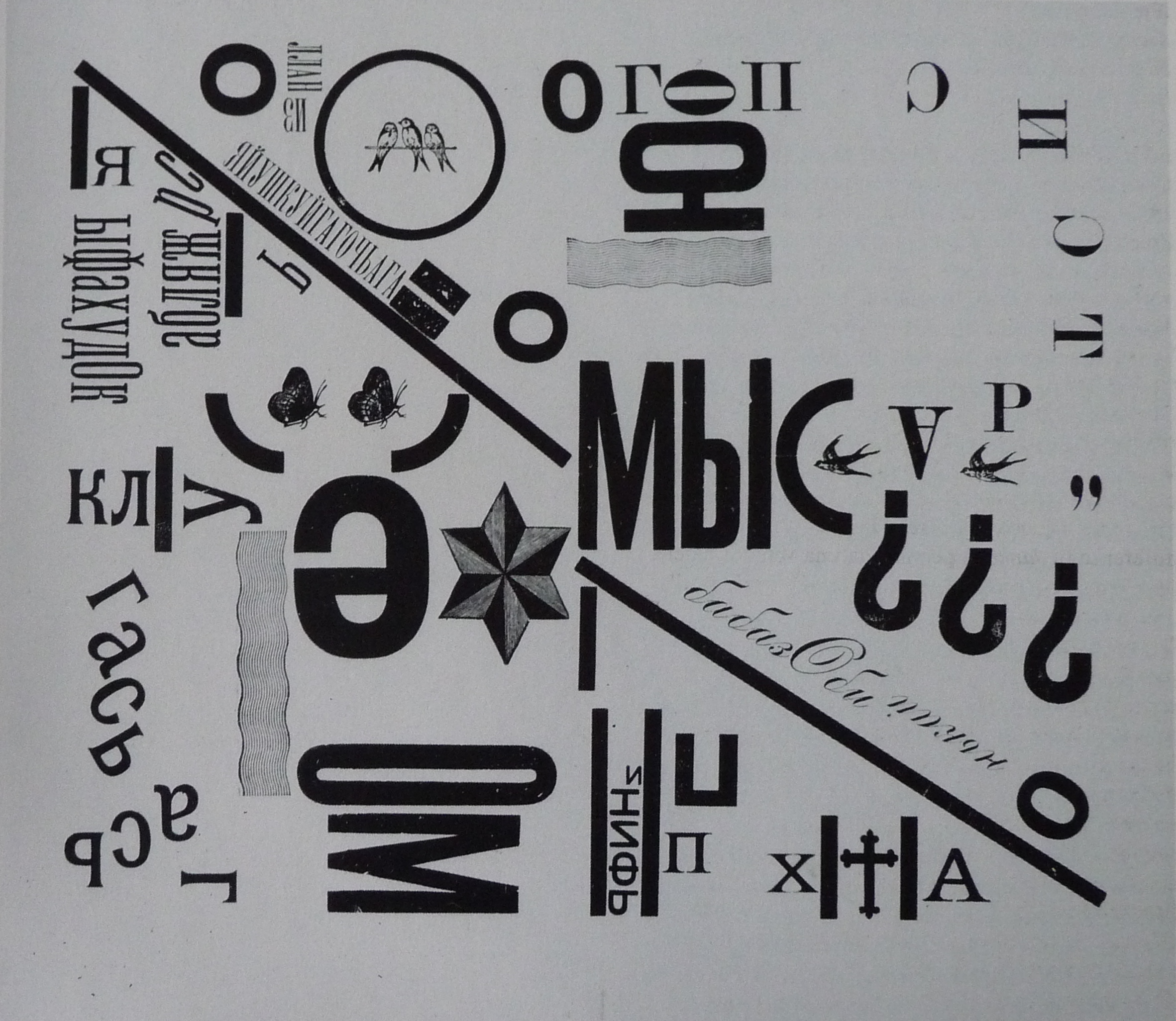 Iliazd. Asel naprakat. Tiflis: 41° 1919